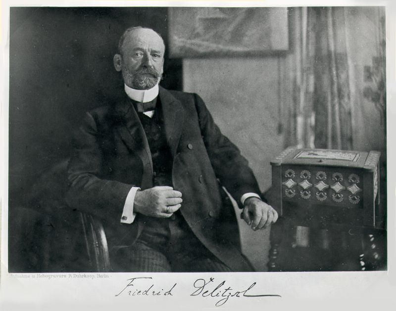 Friedrich Delitzsch (1850–1922), Assyriologist and author of works on Assyrian language, literature, and history.